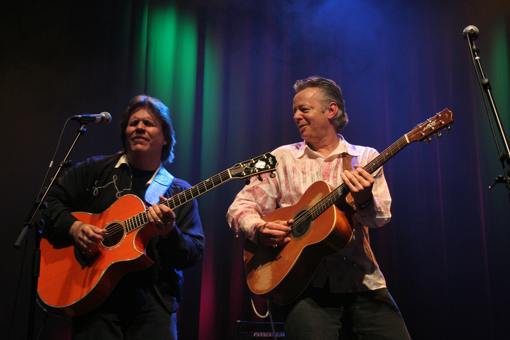 Doyle Dykes and Tommy Emanuel in Raalt, the Netherlands